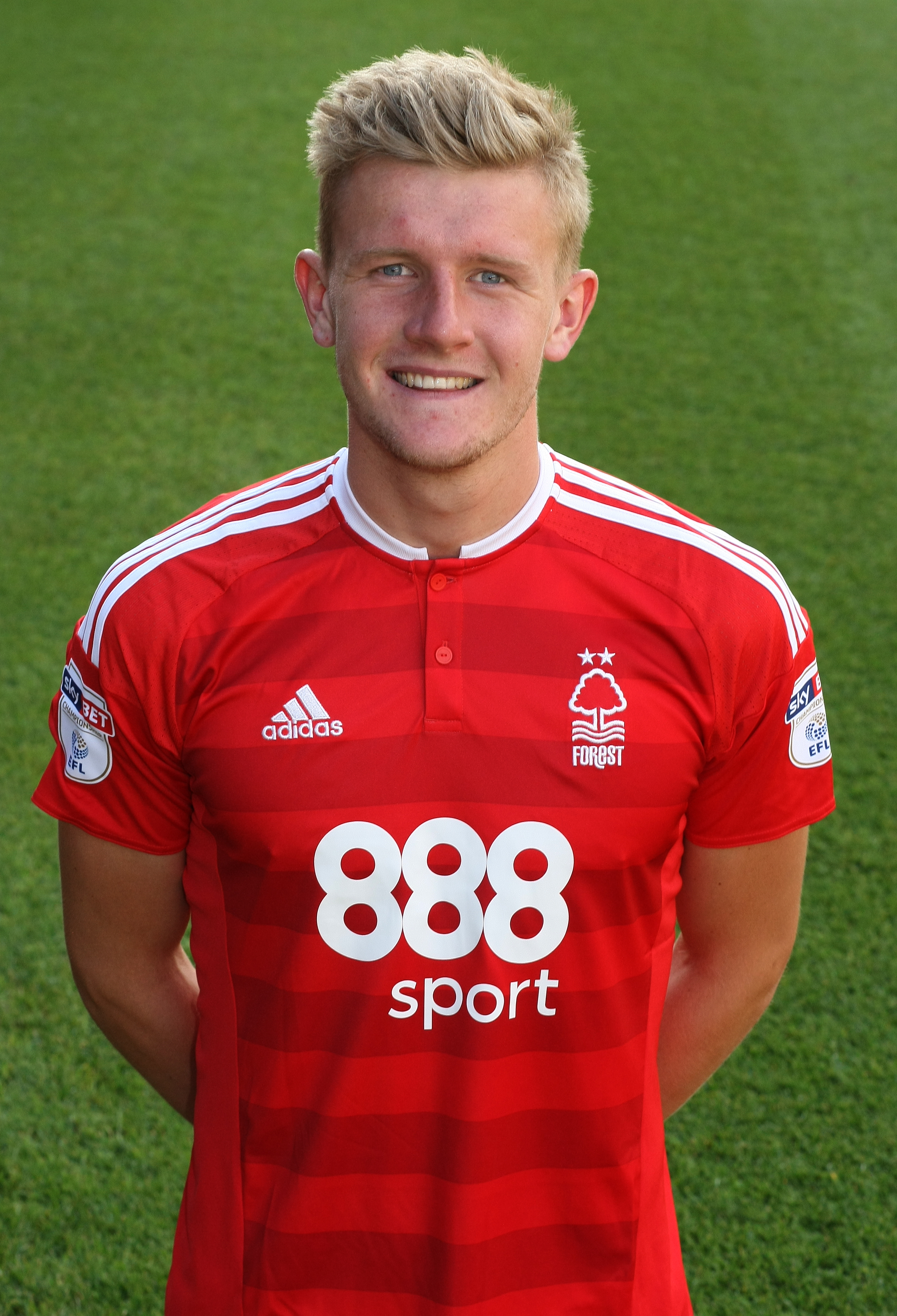 Joe Worrall in Nottingham Forest kit, 2016